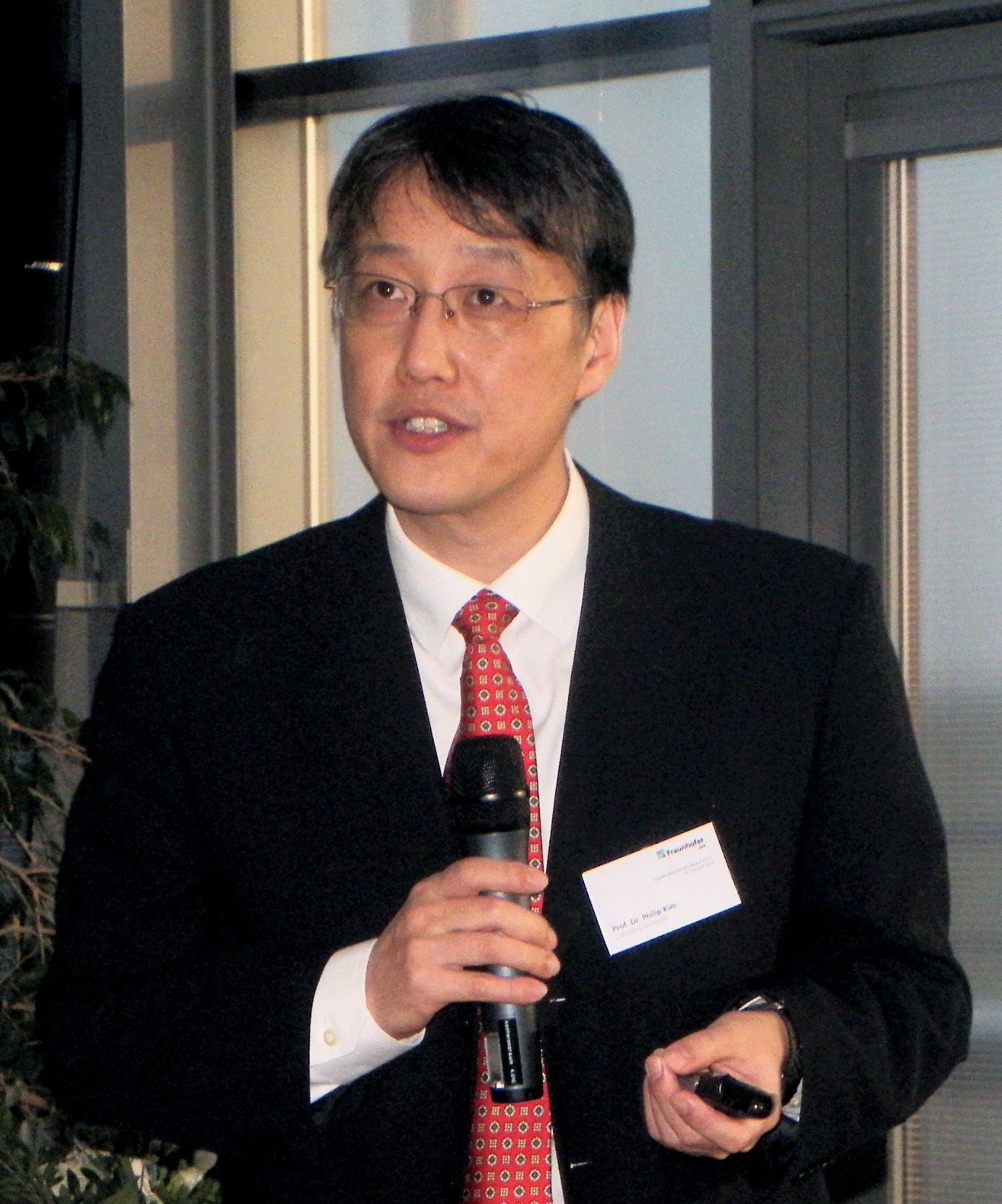 Prof. Philip Kim during his lecture when awarded with Dresden Barkhausen Award (Kim agreed being photographed and the photo to be published).